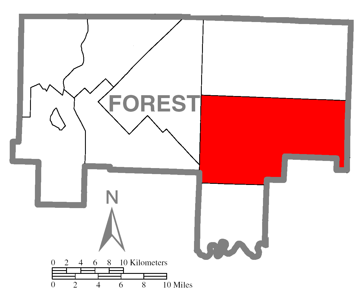 A map of Forest County showing Jenks Township, Pennsylvania (alternate) highlighted on the map.